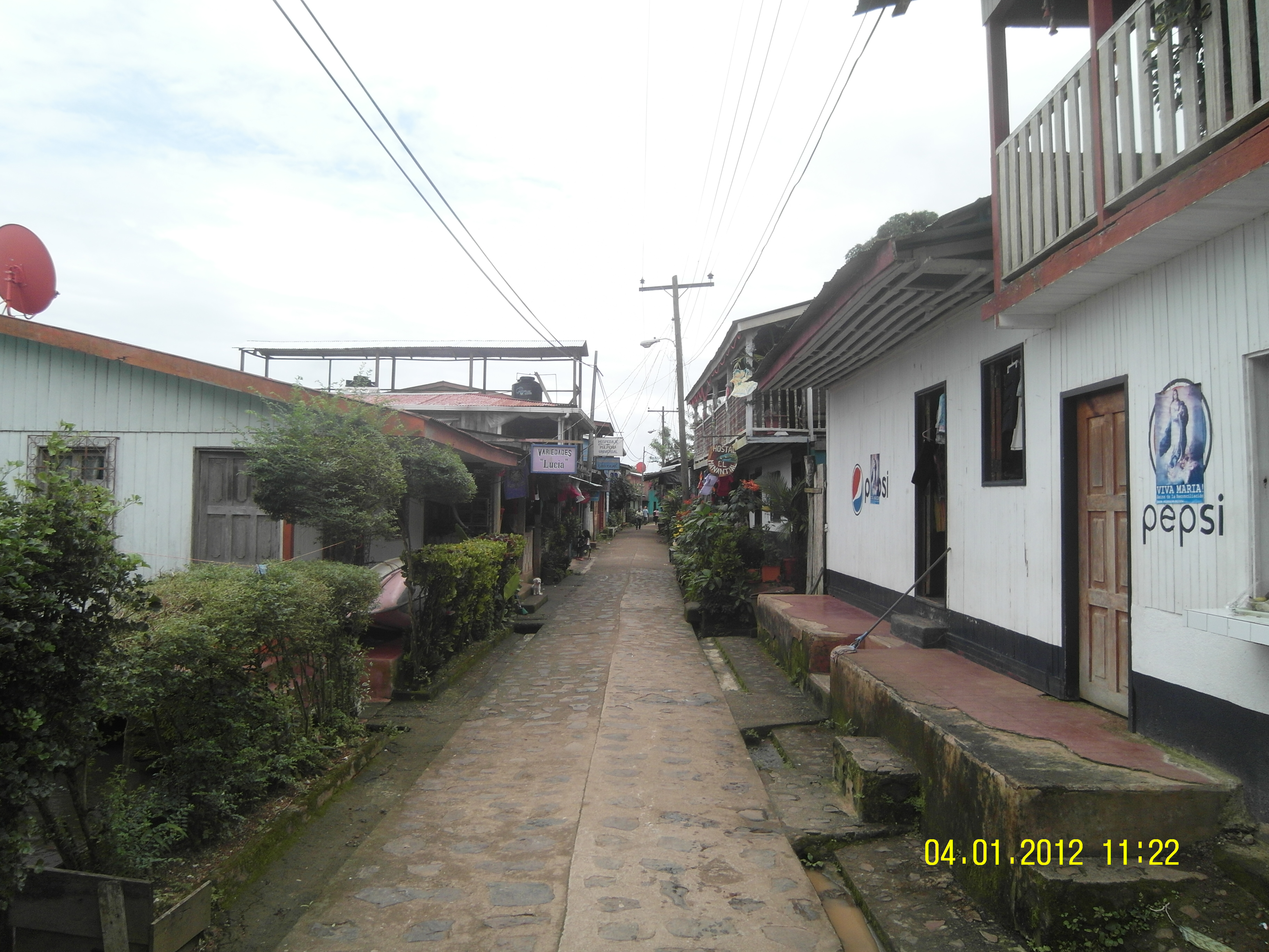 A street scene in El Castillo, Rio San Juan